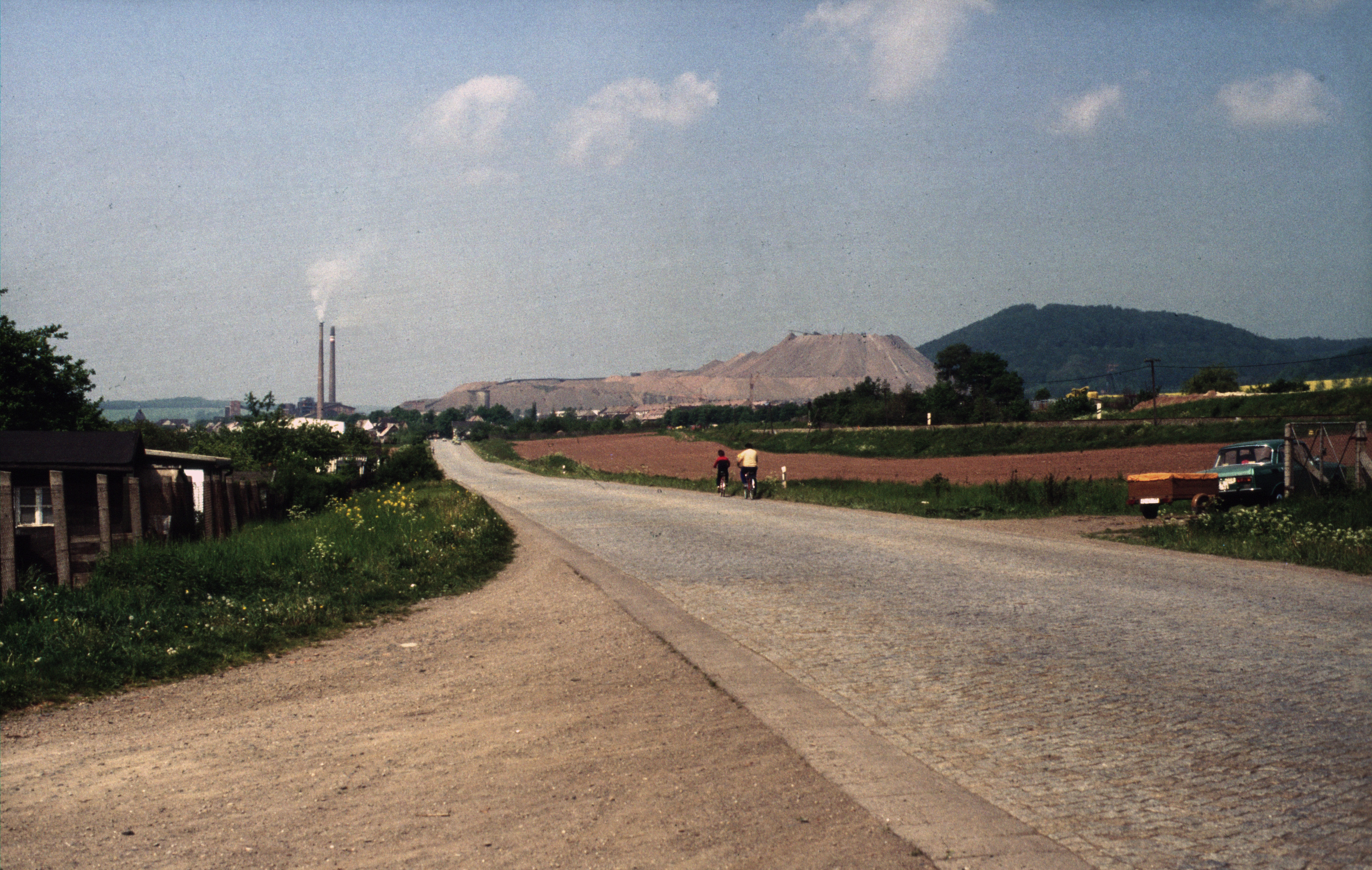 Potash mine Sollstedt seen from easterly directions (picture taken from former F80 road, now L3080, about 1km away from city limits ).